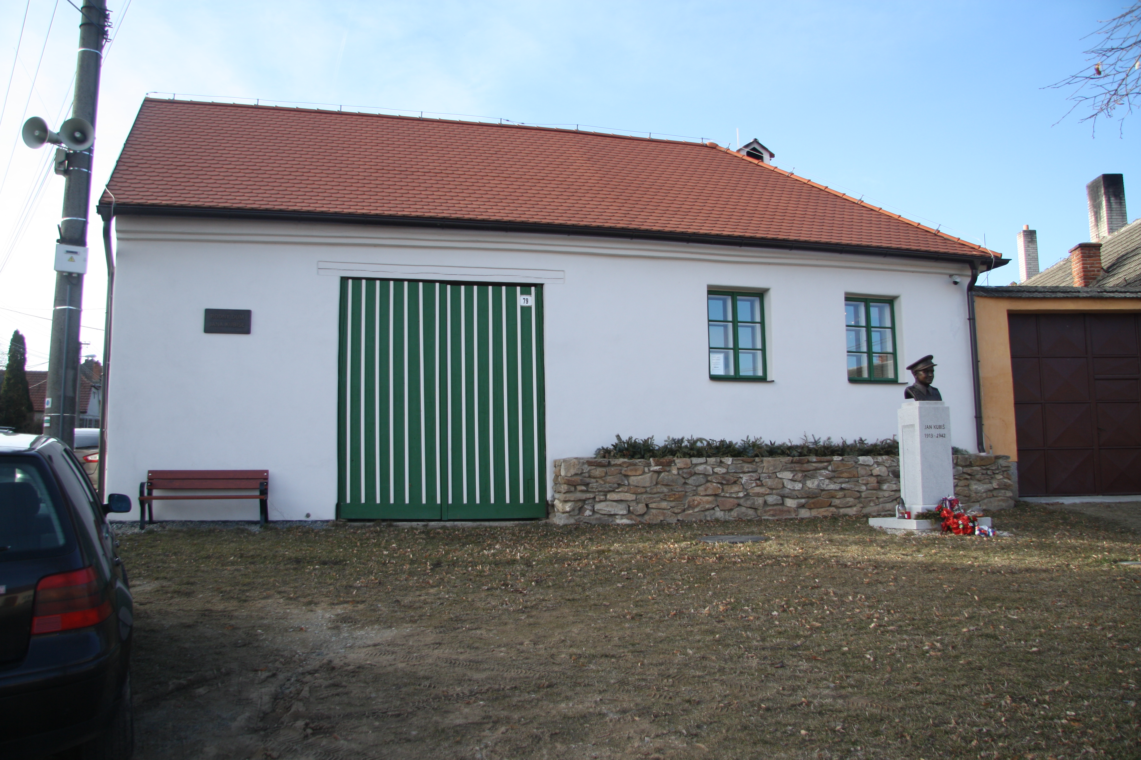 Overview of Memorial museum of Jan Kubiš in Dolní Vilémovice, Třebíč District.